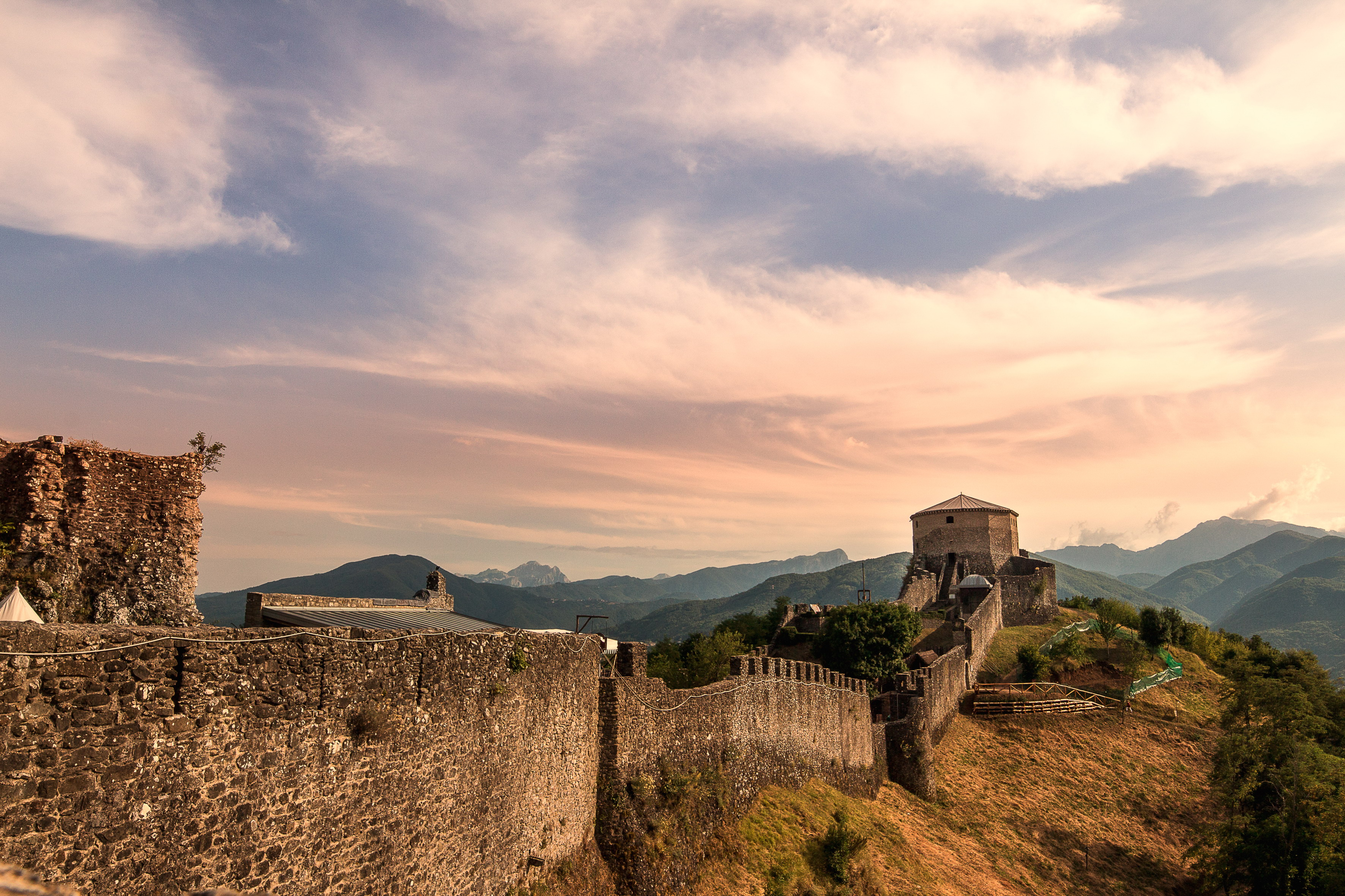 This is a photo of a monument which is part of cultural heritage of Italy.